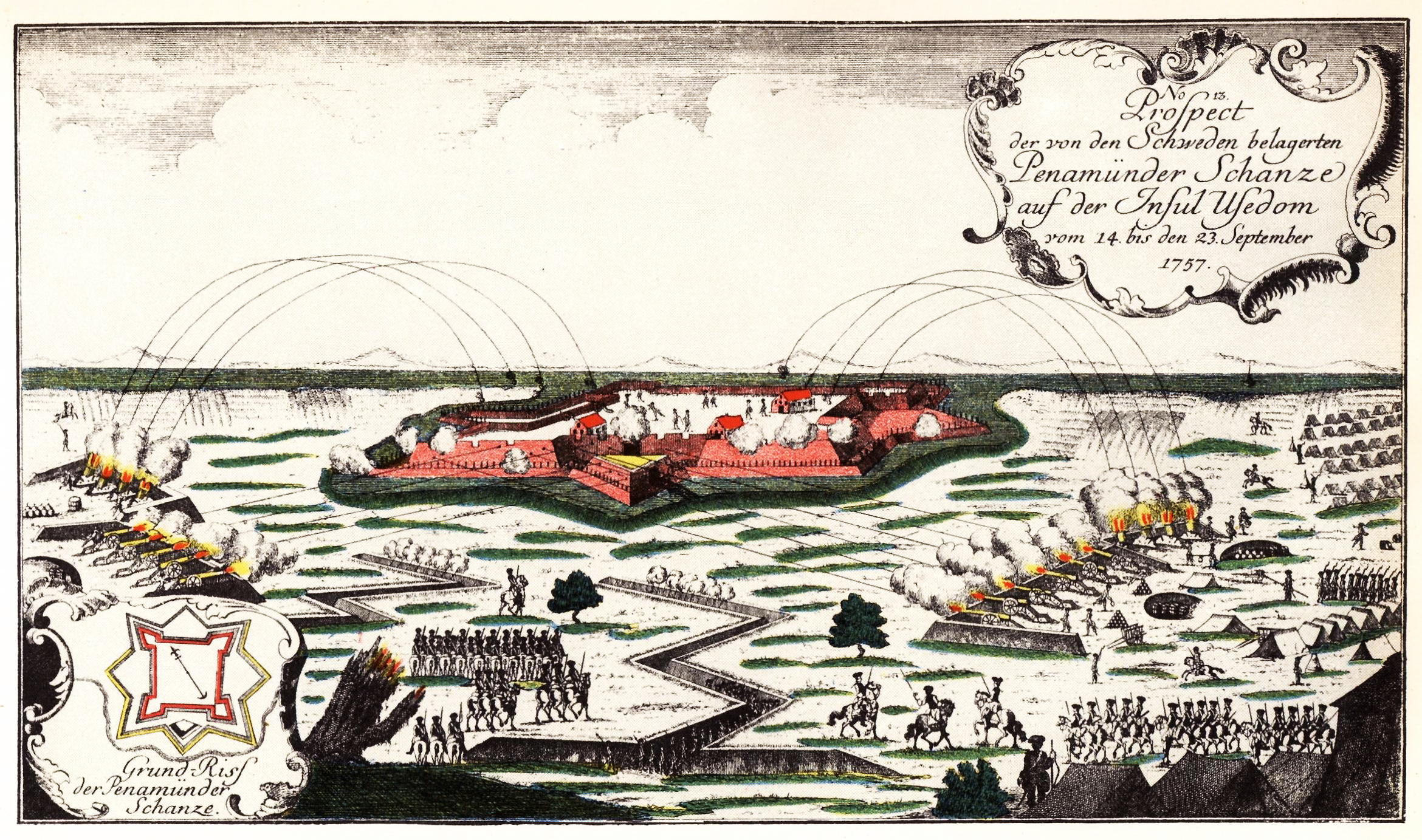 Swedish sieg of the Peenemünde Sconce on Usedom in the Pomeranian War 1757